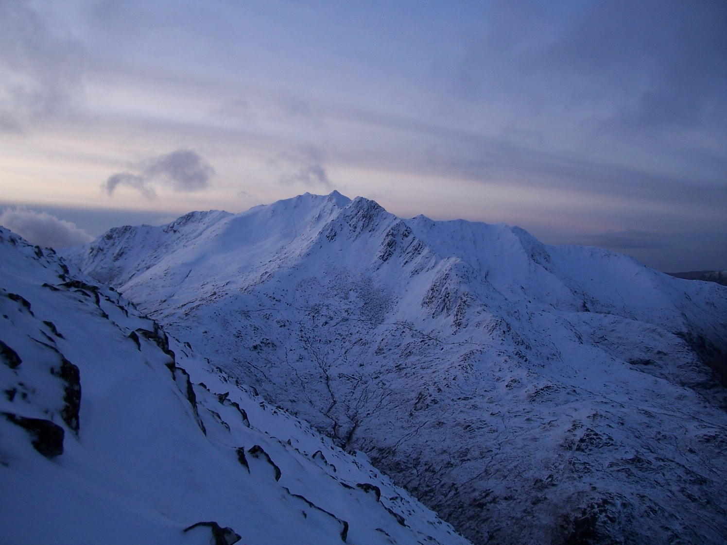 The Saddle (West Highlands) from Faochag. Taken by Stuart Westwater 01/07